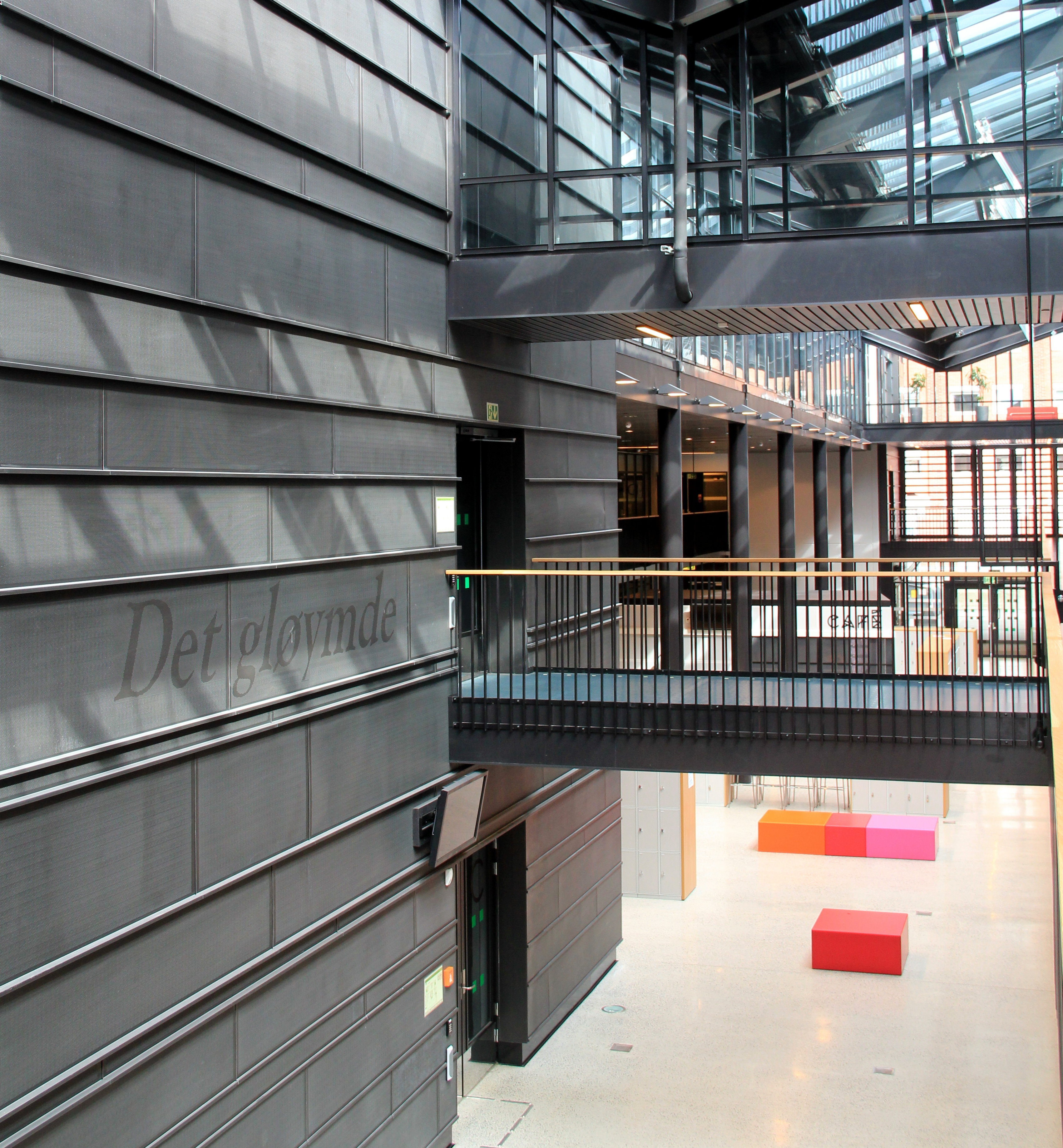 Kuben Upper Secondary Schools foyer With art text on the wall by poet Kurt Johannessen